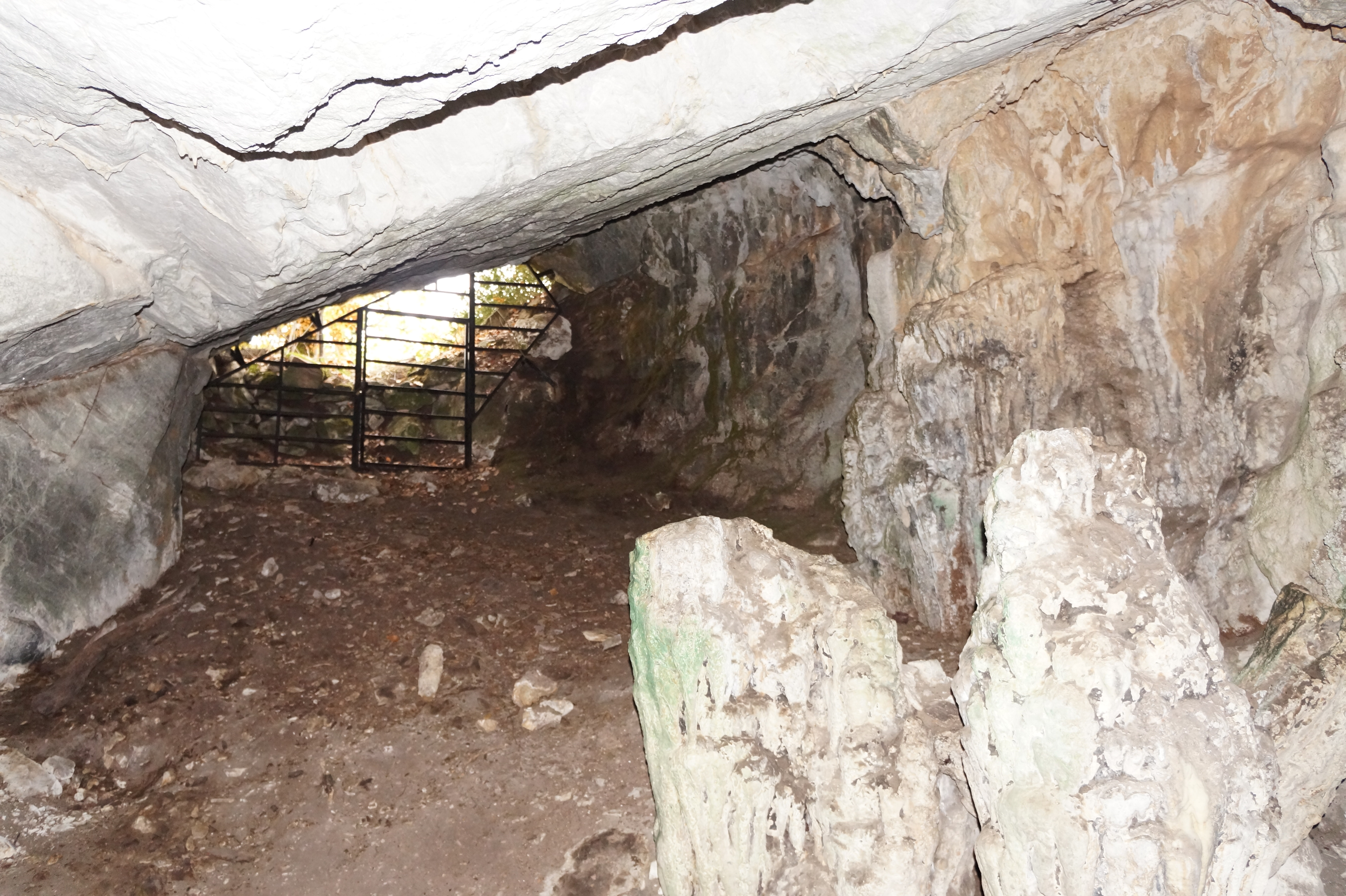 Laparnica cave in Porece region, Macedonia